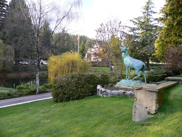 Campus Entrace to Shawnigan Lake School